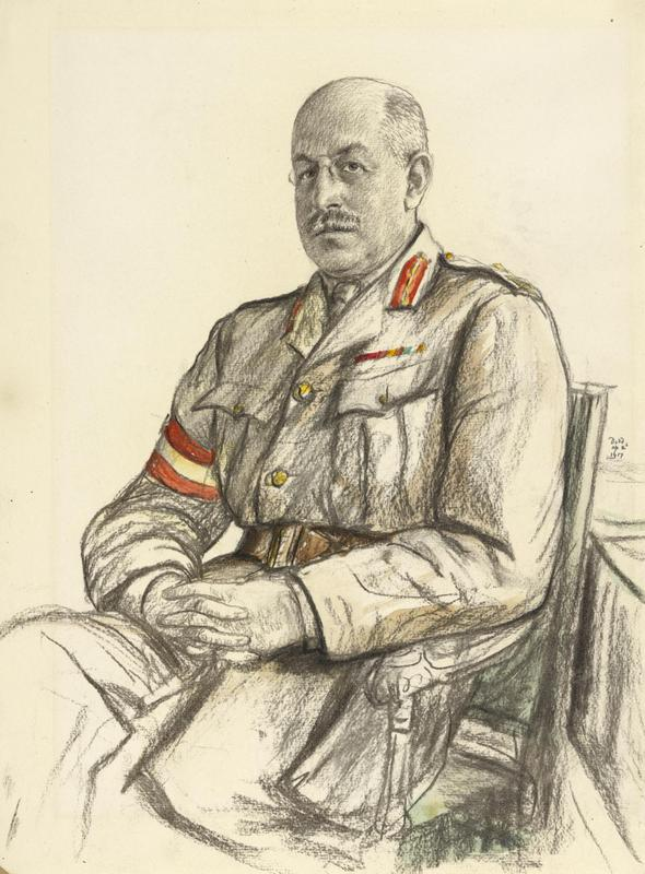 Major-general Sir John Philip Du Cane, Kcb image: a three quarter length portrait of General Sir John Du Cane, seated with his hands interlaced on his lap